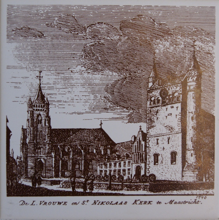 MOSA decorated tile with a depiction of the Saint Nicolas Church and the Church of Our Lady in Maastricht, after a drawing of Jan de Beijer from 1740.